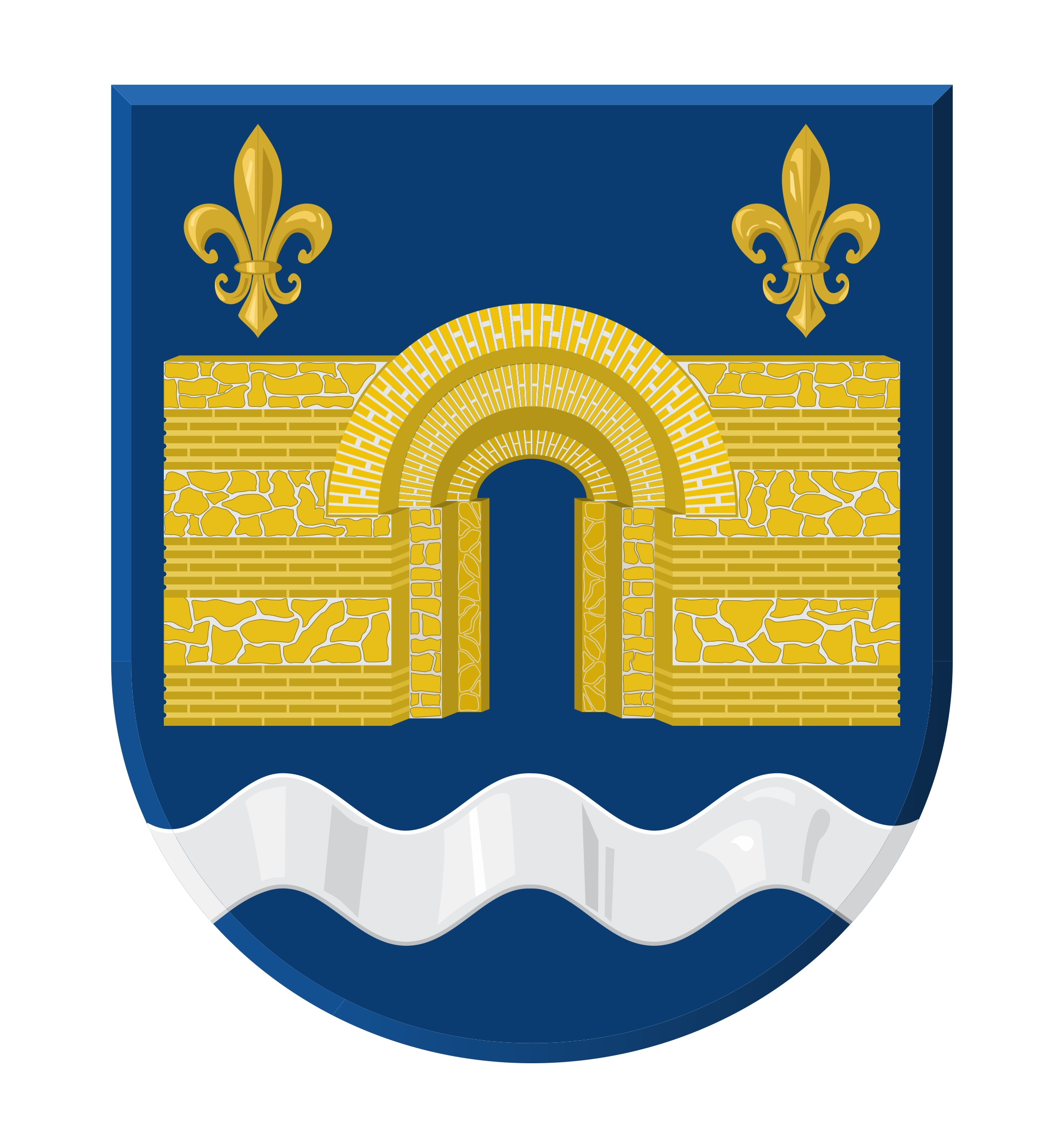 The proposal for coat of arms of The municipalty Lebane